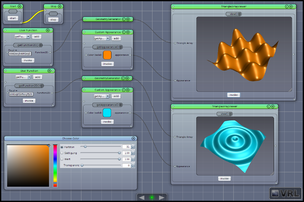 Interactive 3d function plotter project implemented with VRL-Studio. In this particular case dataflow programming and textual programming have been used.